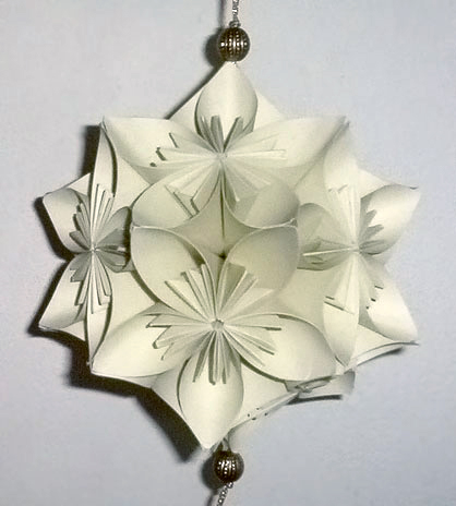 The traditional fold 60 sheets kusudama.